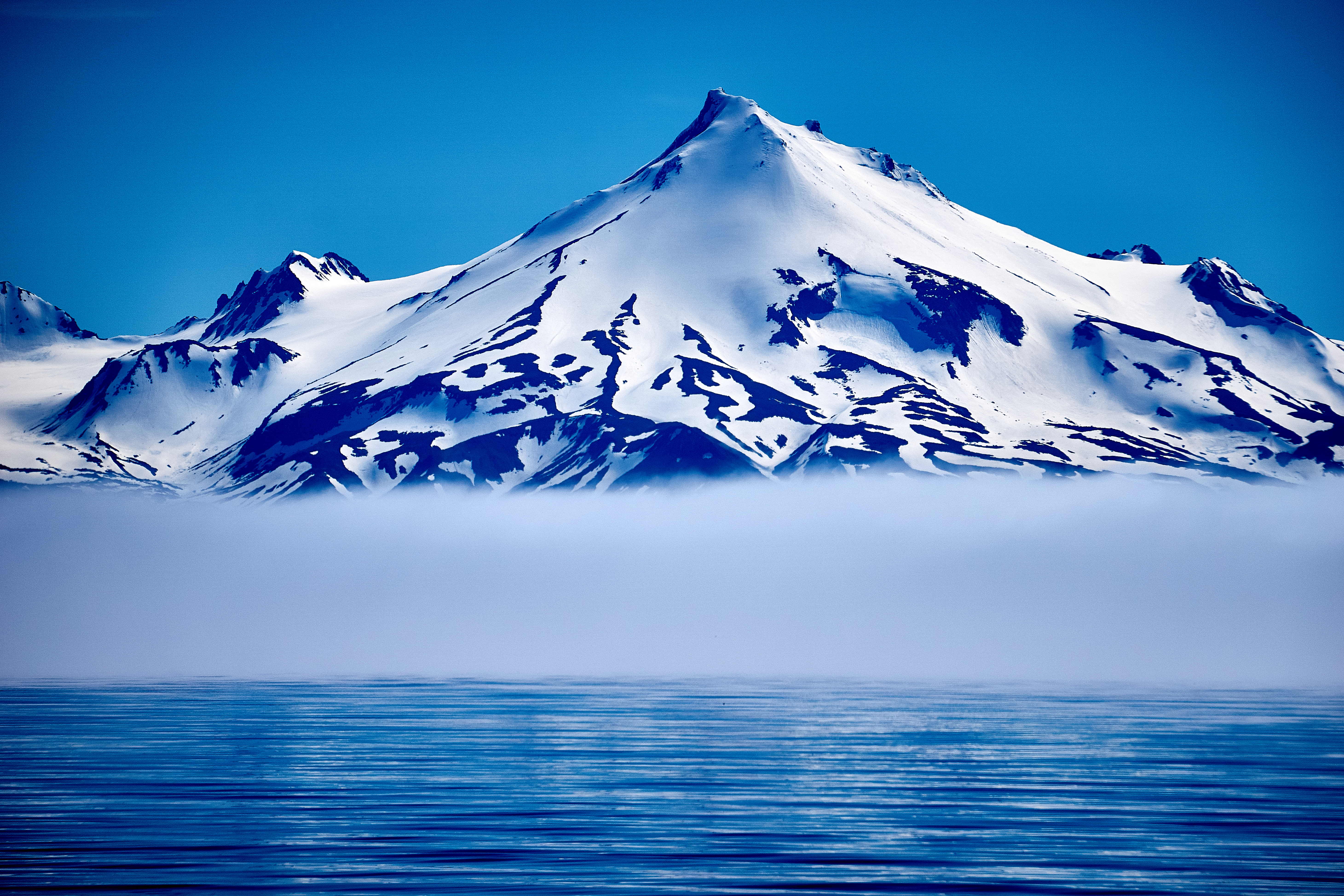 Frosty Peak rising over the fog. Aleutian Range